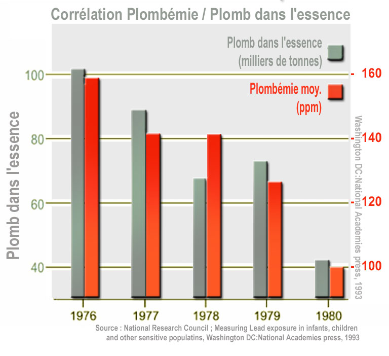 Lead has been used in gasoline during a long time. Research has shown that children are very vulnerable to the toxic effects of the lead, including deficits in attention span, adaptability, learning, and memory and behavioral problems (increases in aggression...). Even low levels of lead exposure can result in decreased performance on memory and intelligence tests. In adults lead give an increased risk of high blood pressure, impaired kidney function, fertility problems, and cataracts.